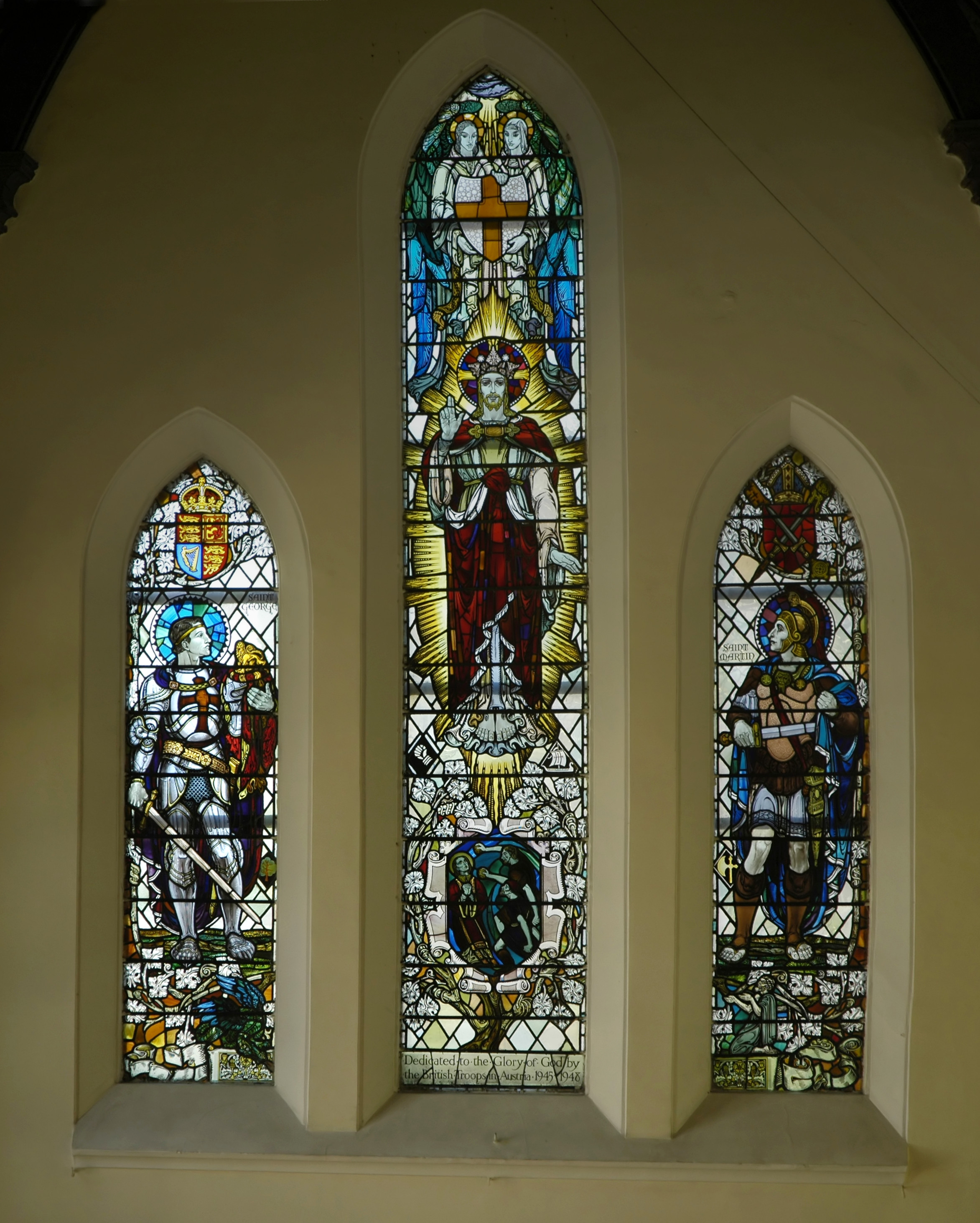 The interior of Christ Church, Vienna, Austria